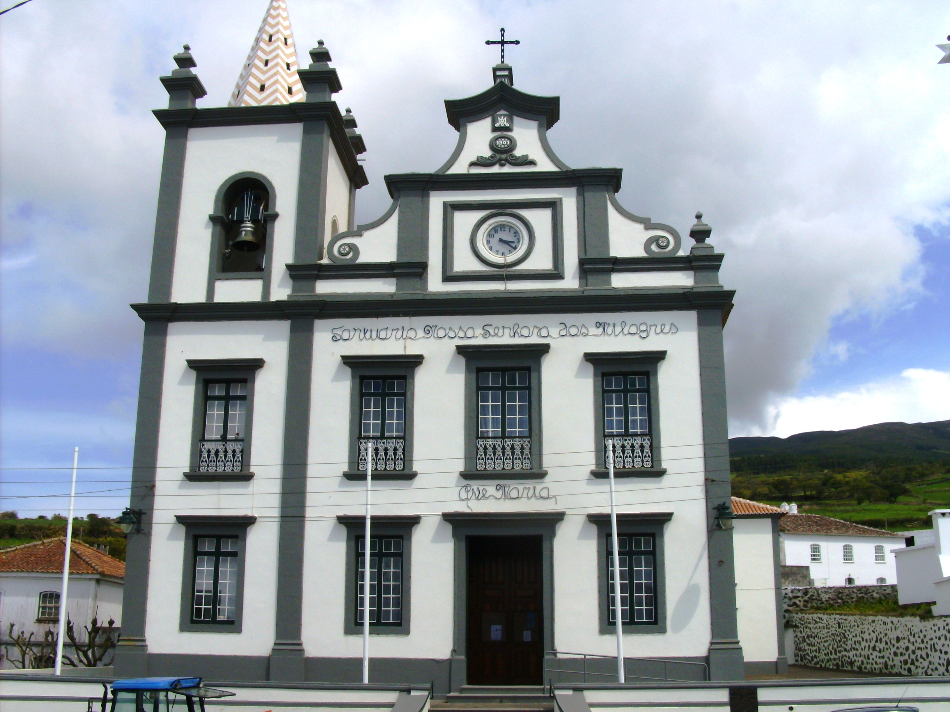 Front facade of the Church of Nossa Senhora dos Milagres, Serreta, Angra do Heroísmo, Terceira (Azores), Portugal